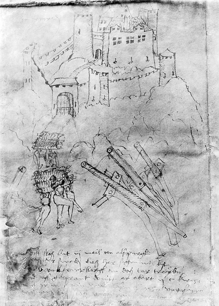 The Danish army attacking Öresten Fortress in 1502, in a war between Sweden and Denmark. Drawing from c. 1502 by the German soldier of fortune (Landsknecht) Paul Dolnstein, who himself participated in the Danish army. Den danska hären anfaller Örestens fästning 1502, i ett krig mellan Sverige och Danmark.. Teckning från cirka 1502 av den tyske landsknekten Paul Dolnstein, som själv deltog i den danska hären. Collection: Photo collections, Archives of Swedish National Heritage Board. The original drawing is probably kept in the State Archives of Weimar in Germany. Parish (socken): Örby Province (landskap): Västergötland Municipality (kommun): Mark County (län): Västra Götaland Photograph by: Unknown Date: c. 1930 Format: Film negative Persistent URL: Read more about the photo database (in english)